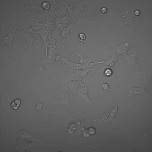 COS-7 cells. 40X magnification. Fluoview confocal microscope. COS-7 cells are a cell line derived from the liver of an African green monkey.